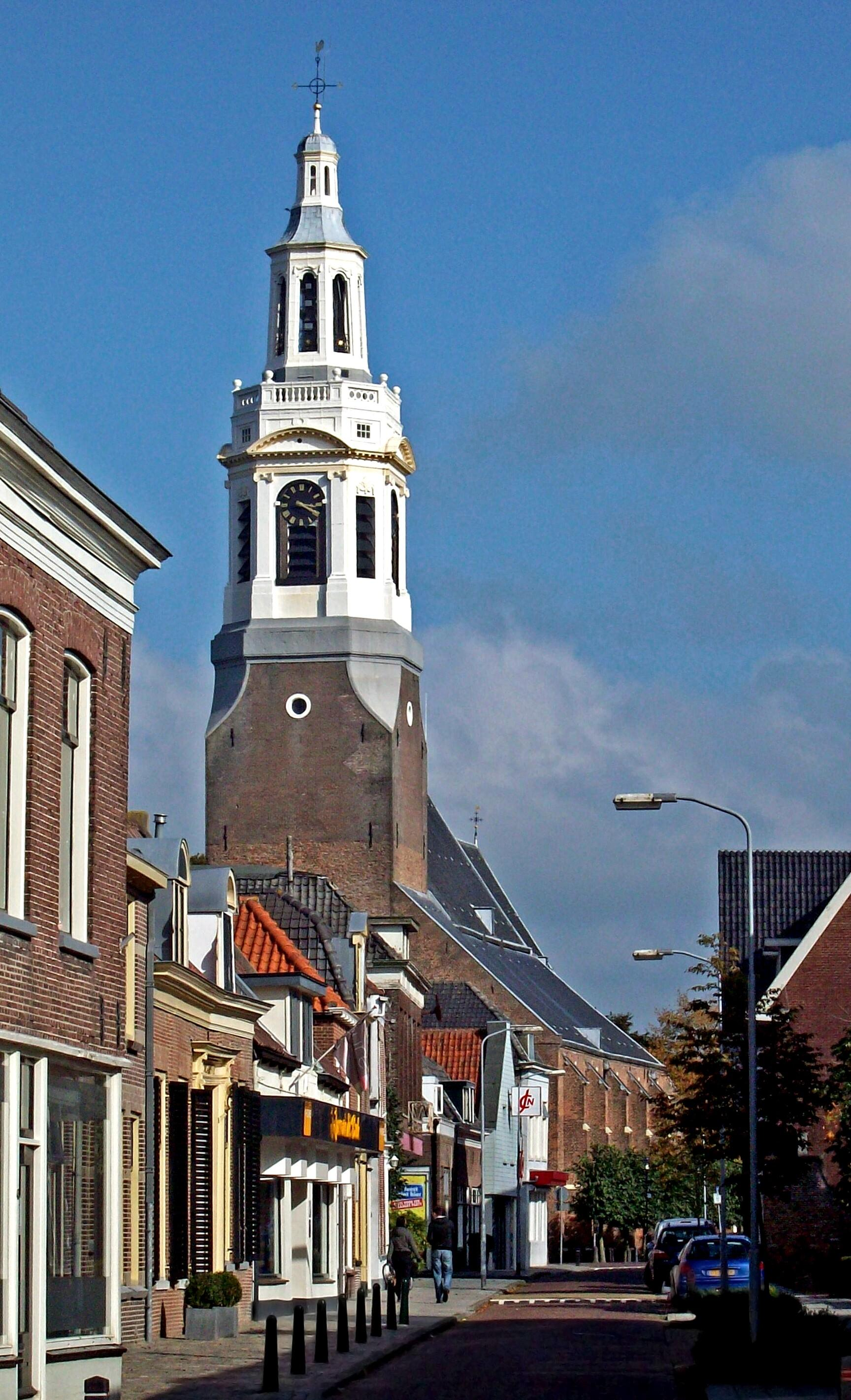 The Big church of Nijkerk (the Netherlands)